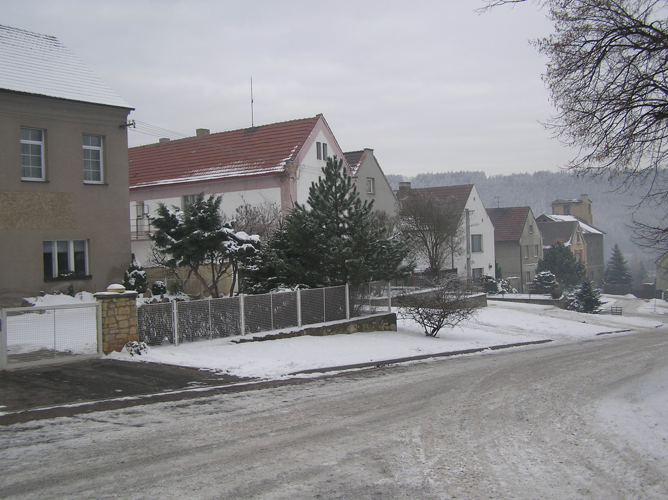 Village square in Domoušice